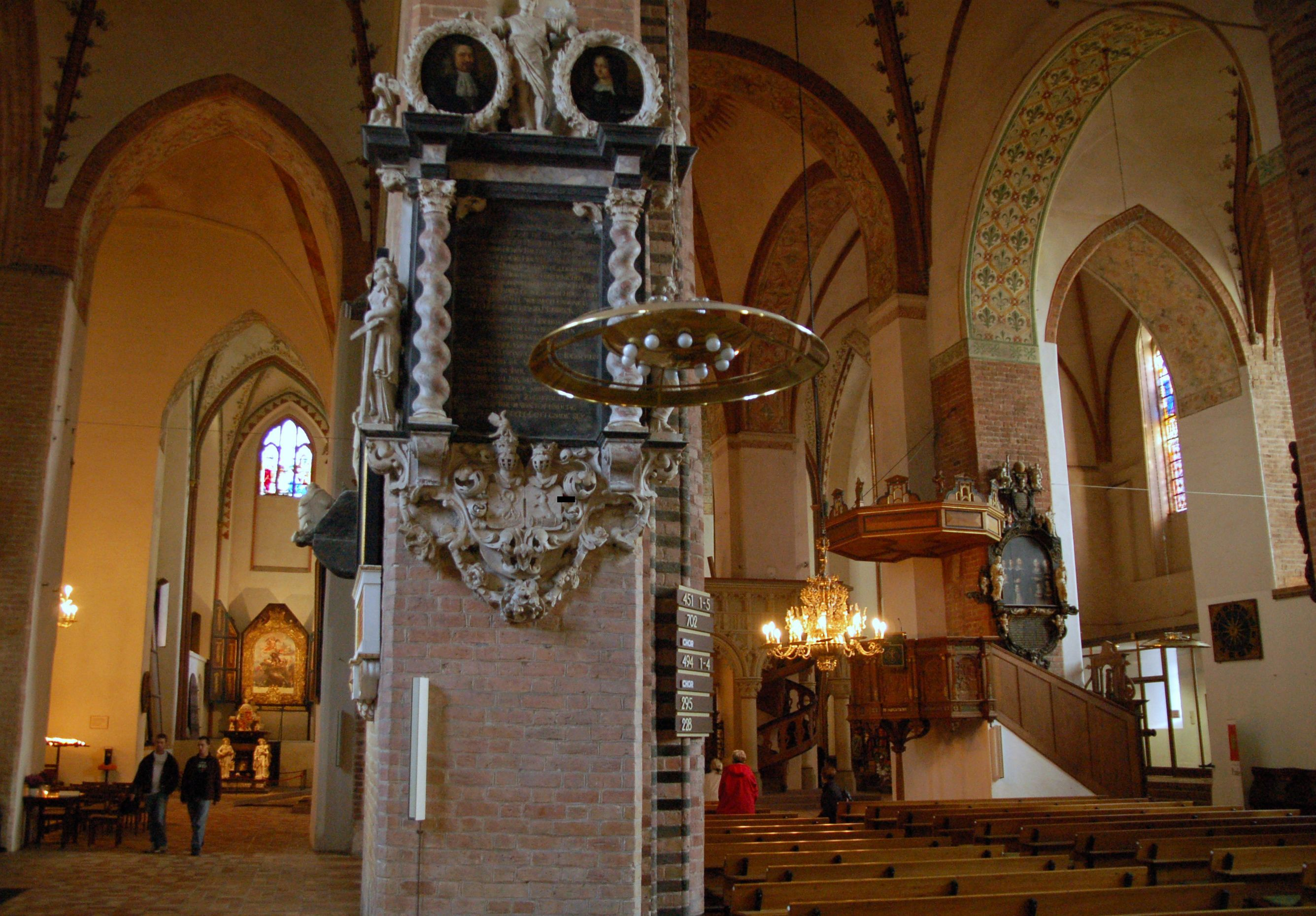 Schleswig Cathedral, Germany